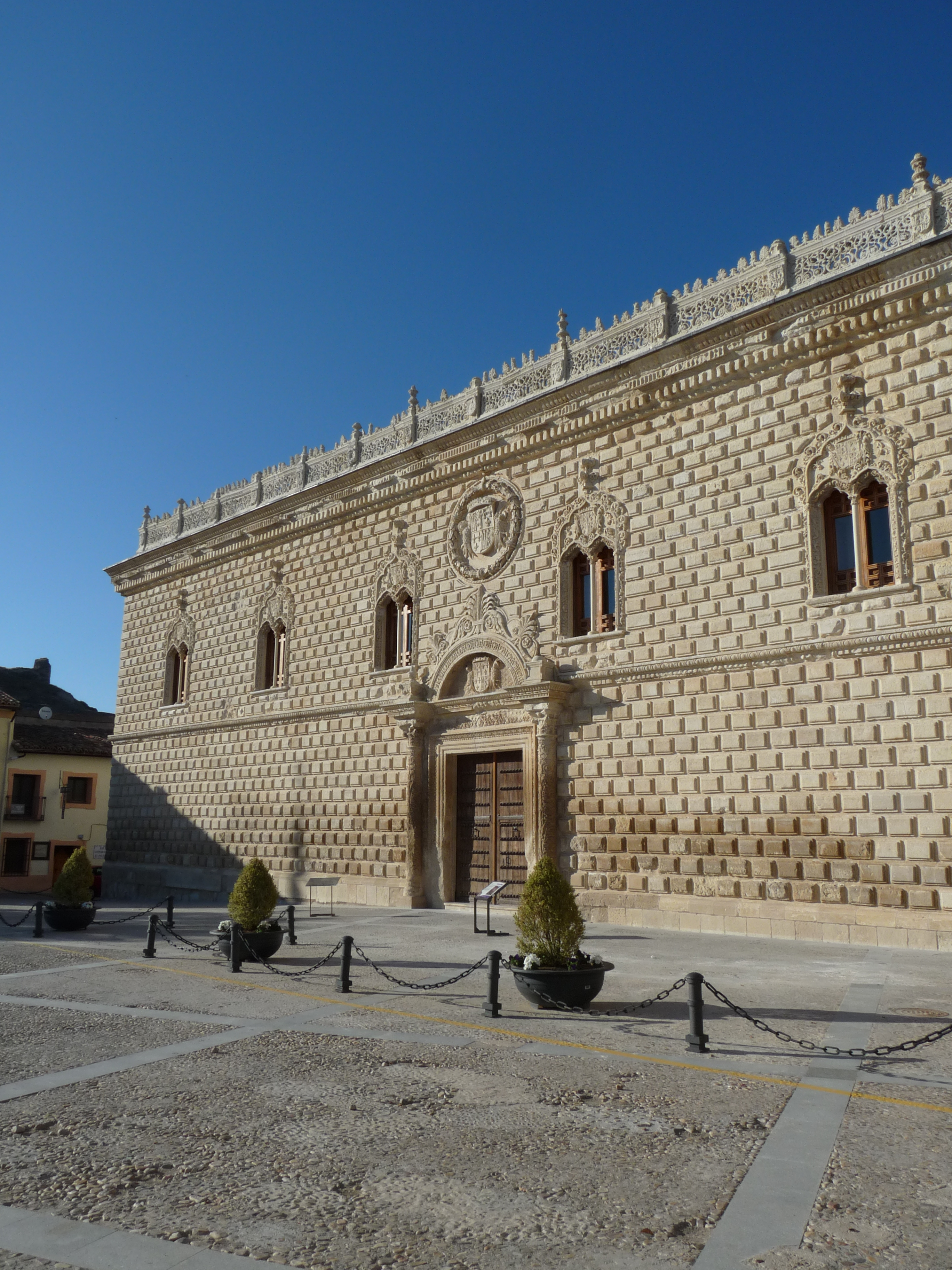 Duques de Medinaceli's Palace,Cogolludo, Guadalajara, Castile-La Mancha, Spain.